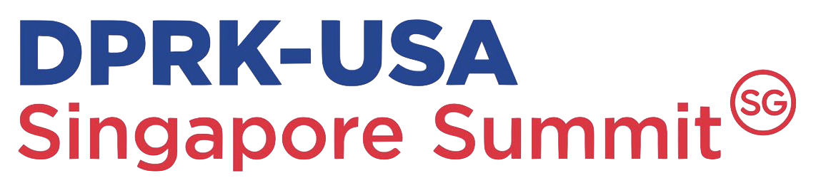 The logo of the DPRK–USA Singapore Summit, as shown at the International Media Centre in Singapore.